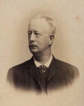 Sophus Frederik Erik Otto Skeel (1836-1897), Danish politician, MP